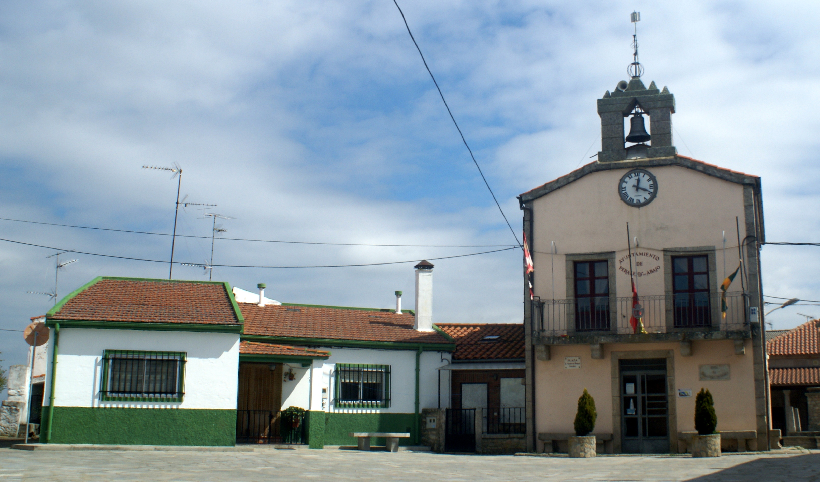 Town hall in Peralejos de Abajo, Salamanca, Spain.